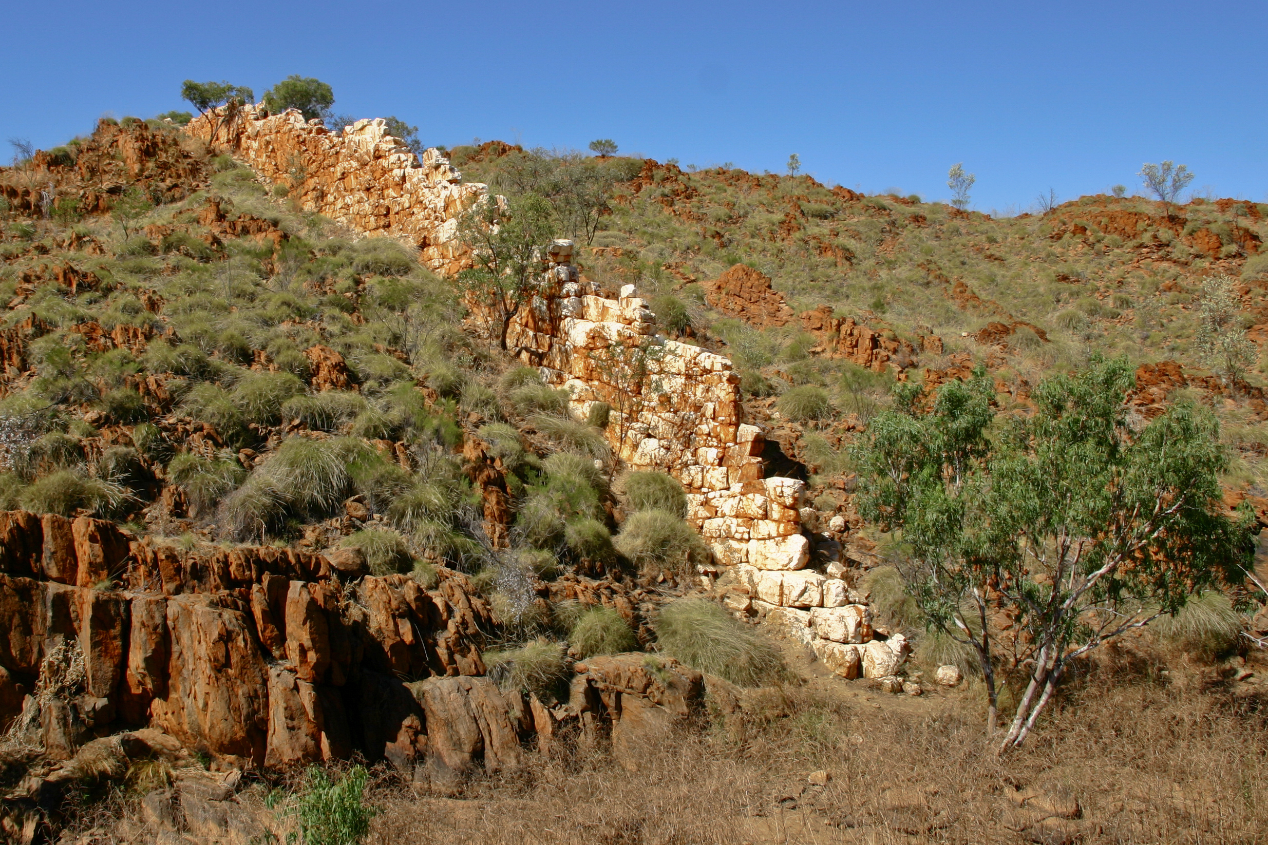 The so called »ChinaWall« near Halls Creek, Western Australia, Australia